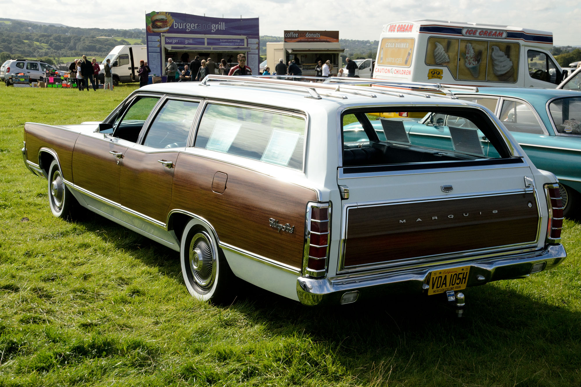 Hoghton Tower Classic Car Show 13/09/2015